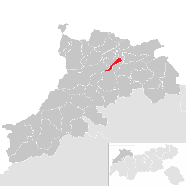 District Reutte